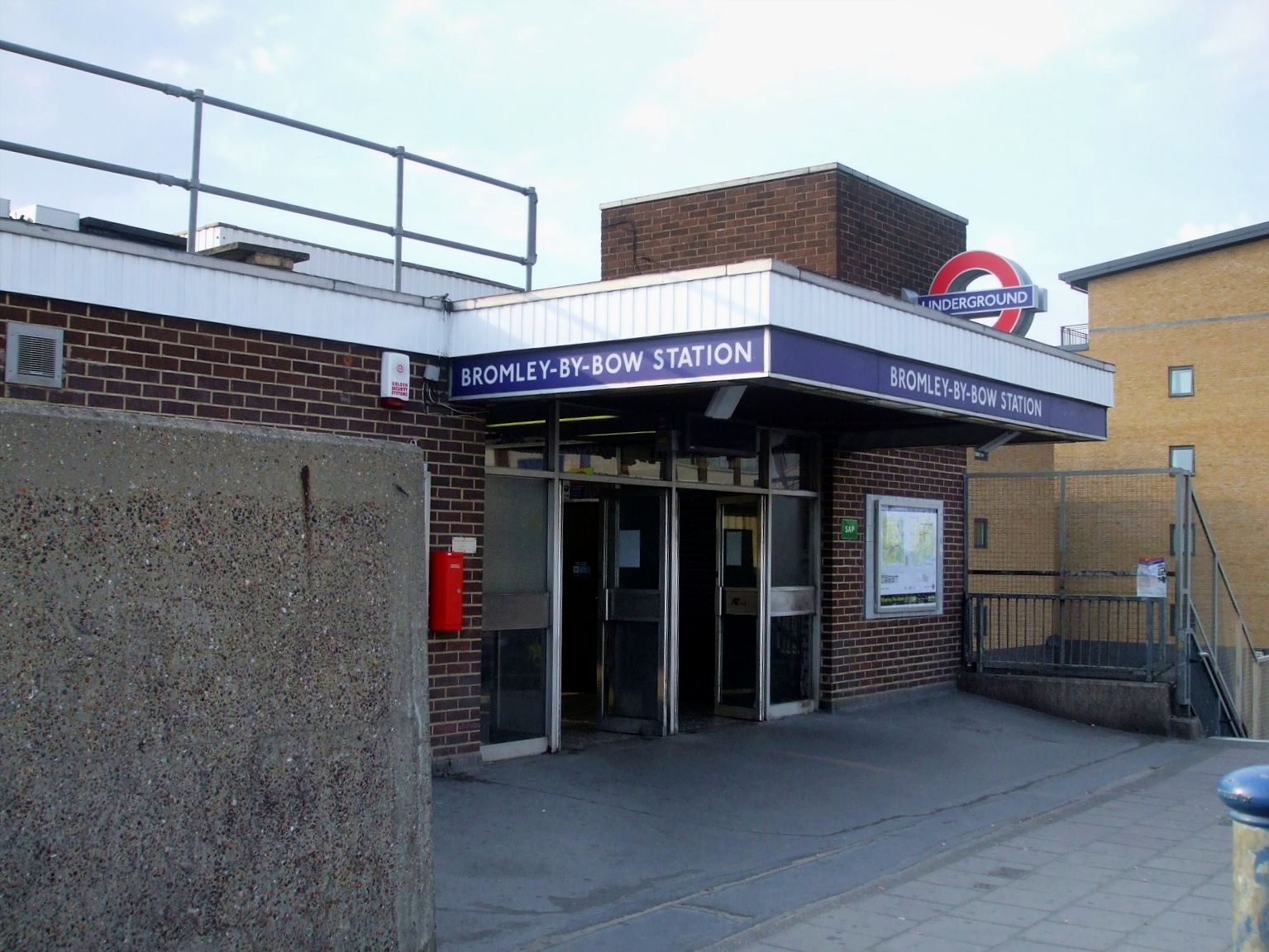 Bromley-by-Bow tube station entrance